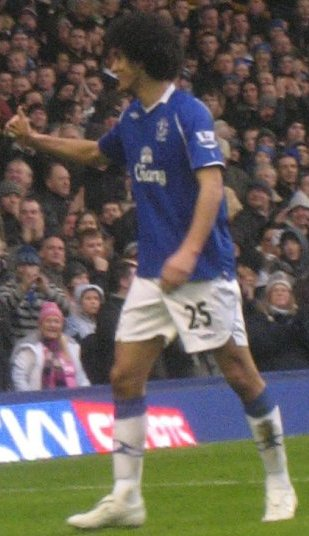 Marouane Fellaini for Everton